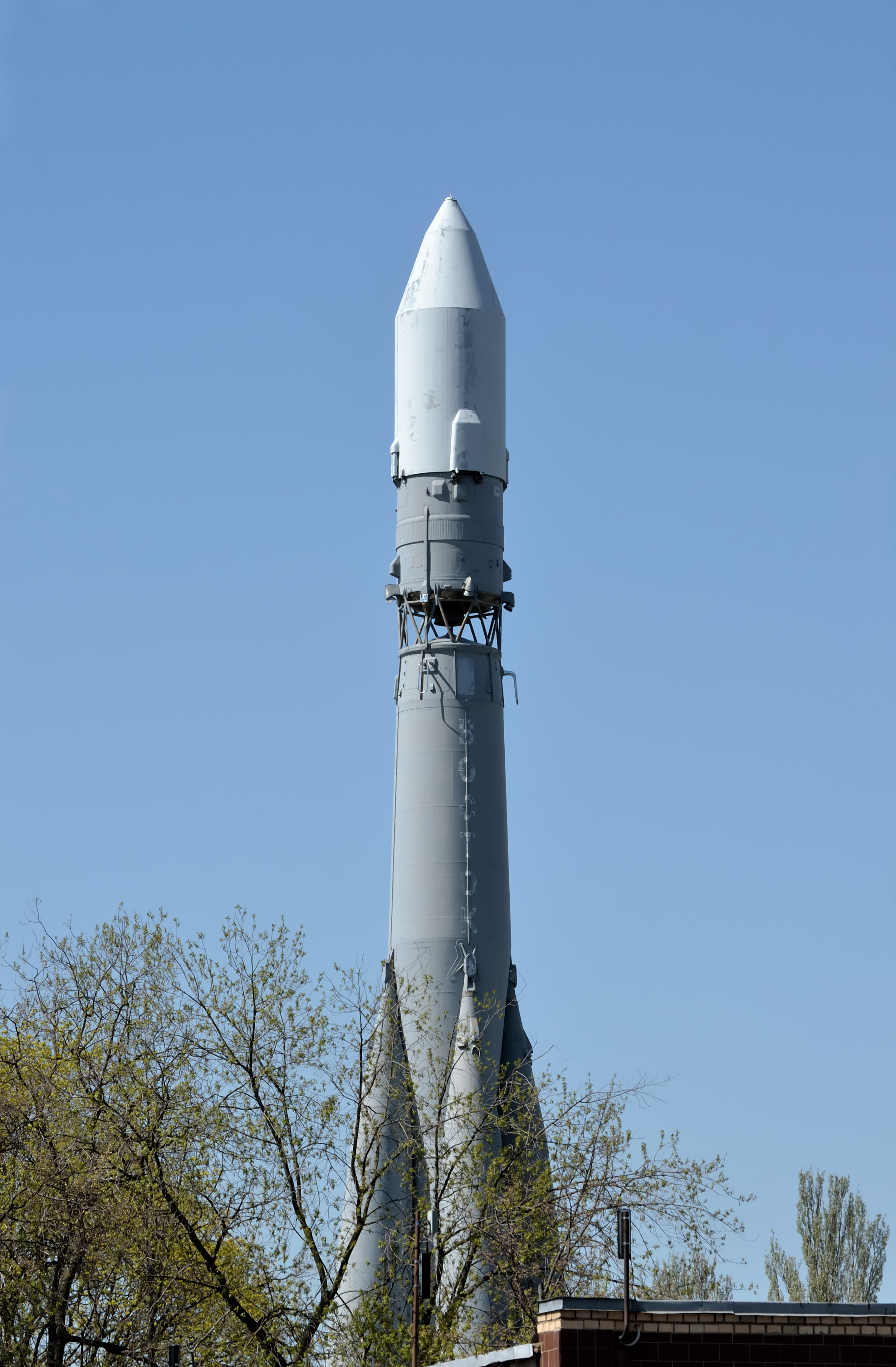 Korolyov, Moscow Oblast. The full-scale model of the Vostok-2M (8A292M) carrier rocket installed as a monument in 1995 on the territory of the RSC Energia. A view from the square before the main entrance check-point of the RSC Energia.